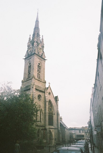 Aberdeen: Catholic cathedral church of St. Mary of the Assumption